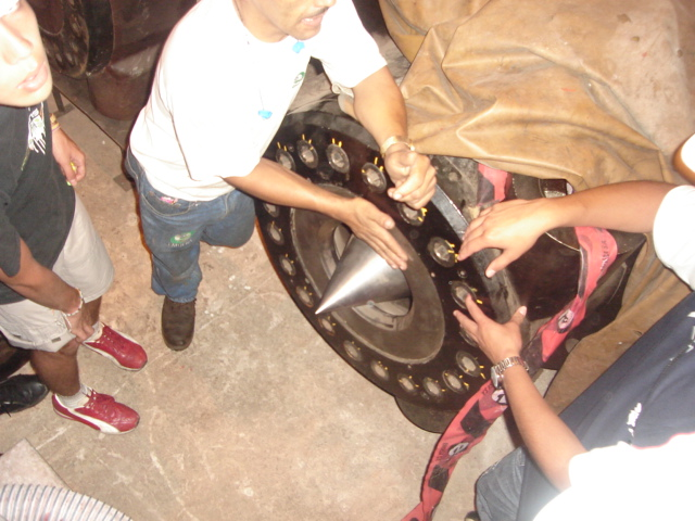 Inyector